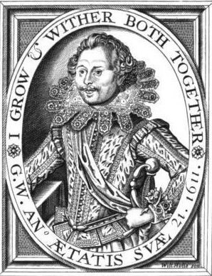 George Wither (d. 1667) Source: Frontispiece of 1902 edition of Wither's Poetry